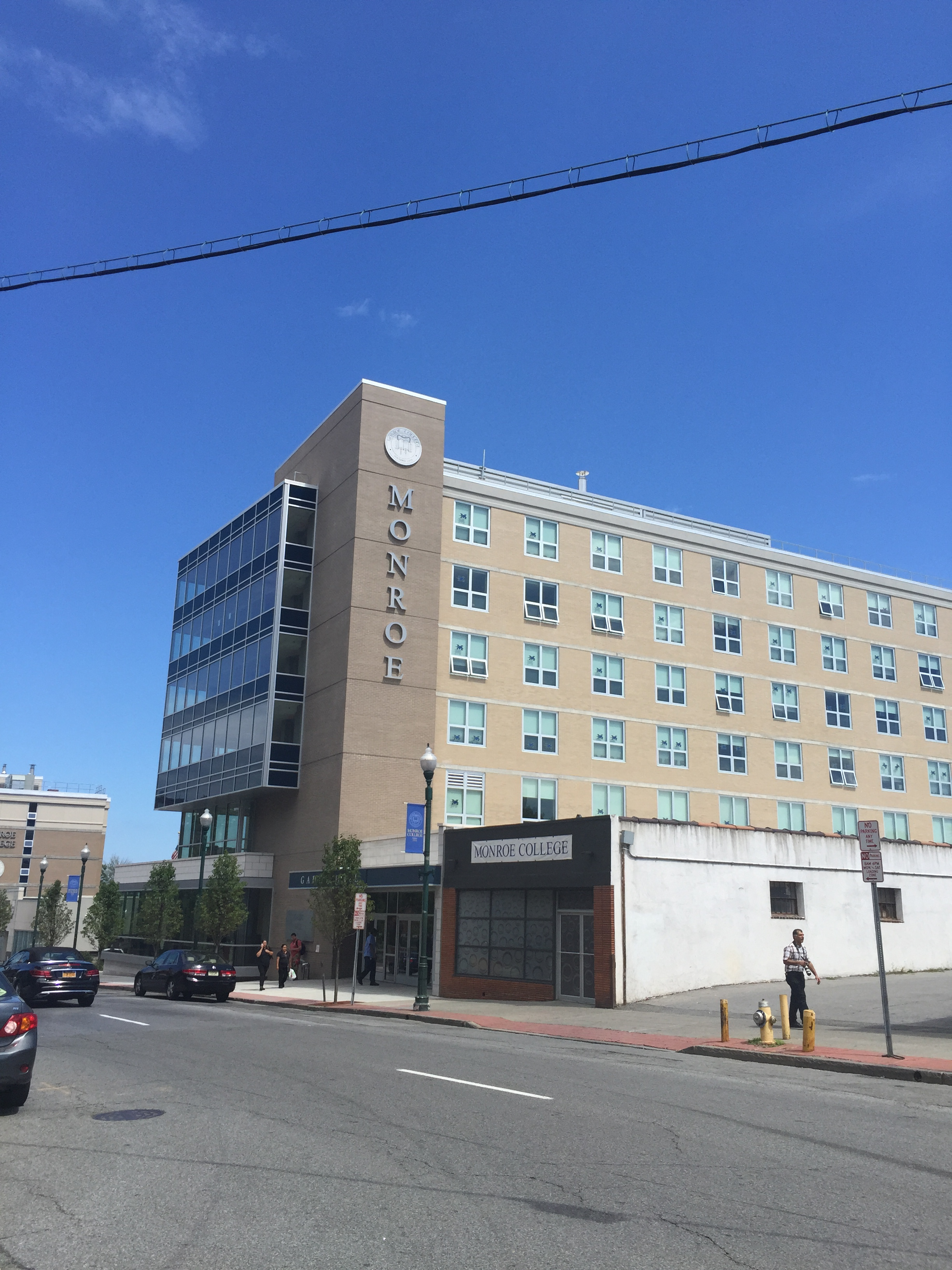 A street view of Gaddy Hall